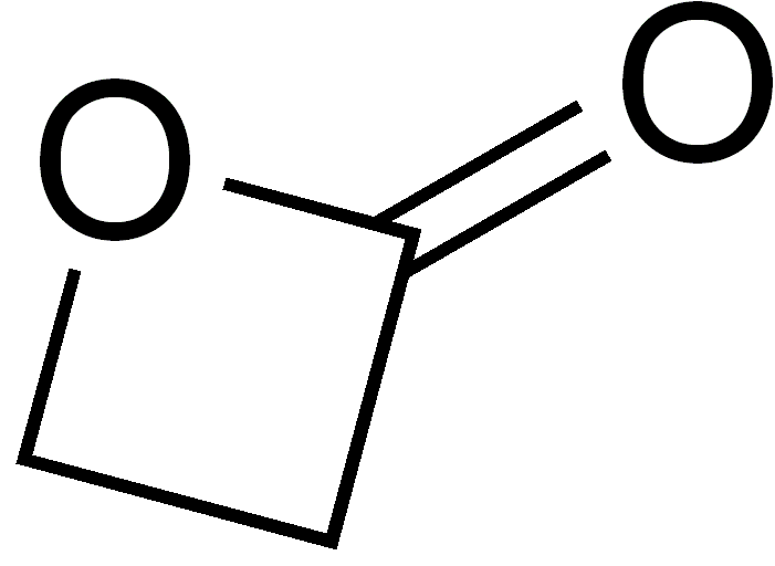 Propiolactone picture was previously made by en-user Edgar181 Chemical structure of propiolactone created with ChemDraw